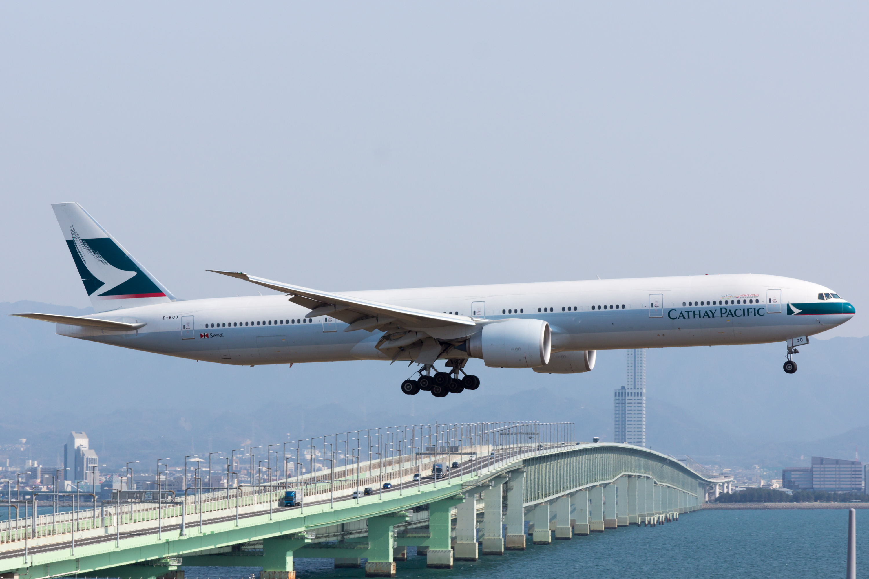 Cathay Pacific Boeing 777-367(ER)